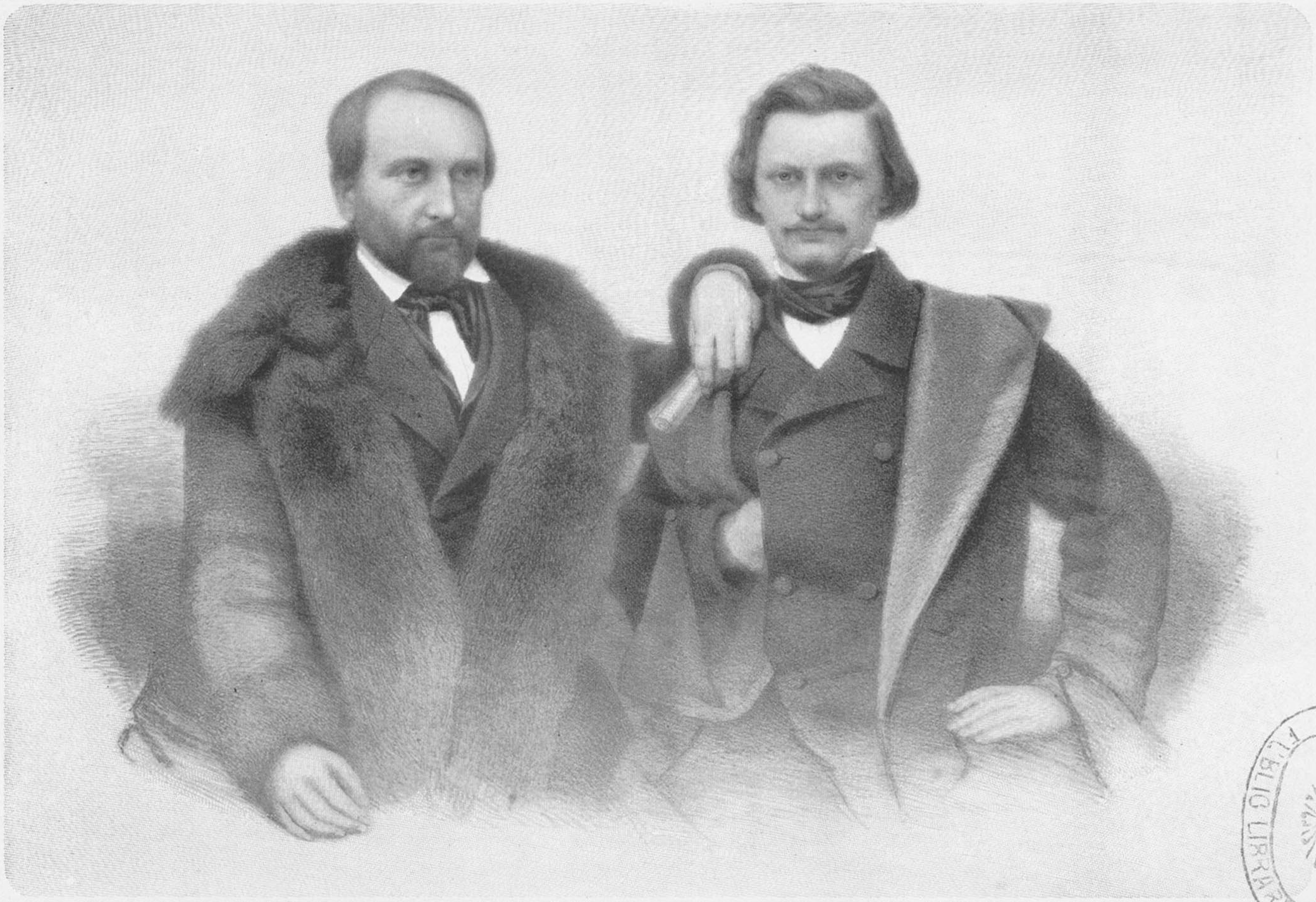 Black and white portrait drawing of Gottfried Kinkel and Carl Schurz, presumably shortly after their arrival in Paris after escaping from Spandau reformatory outside Berlin